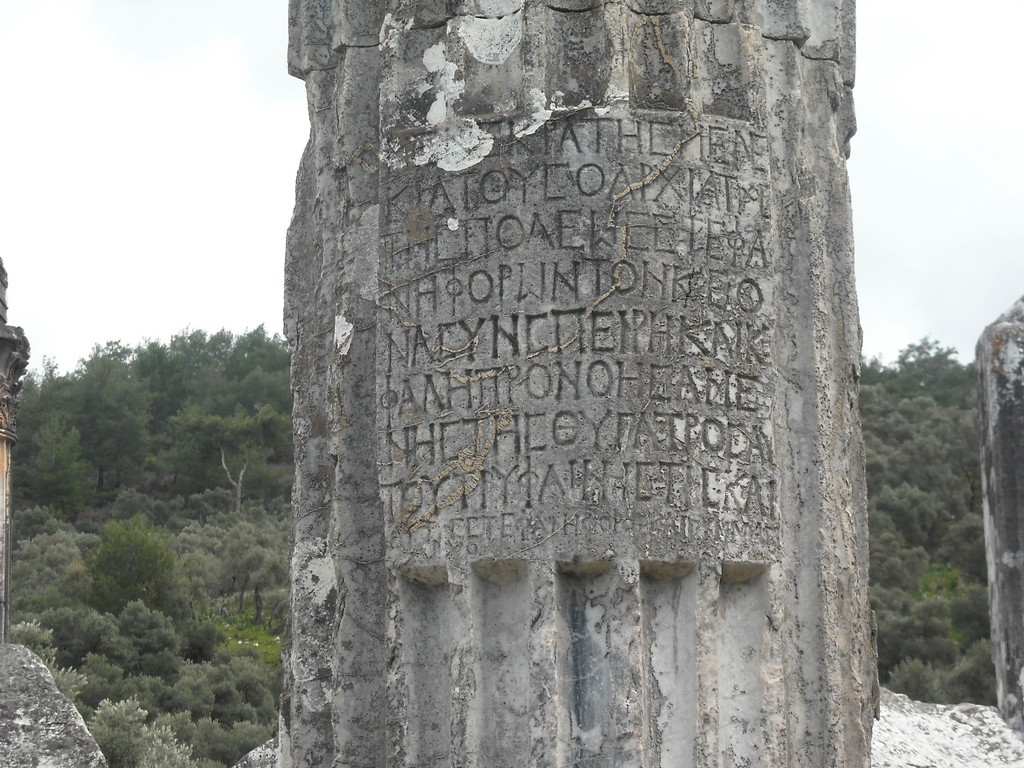 Zeus temple in Euromos, Turkey